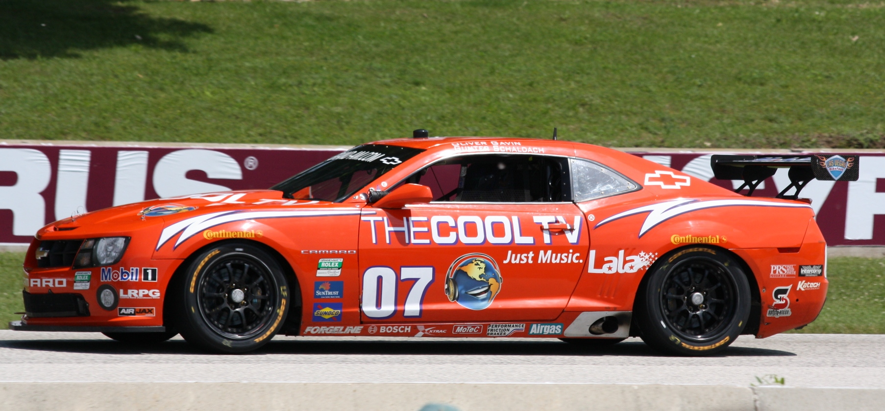 The GT sports car of Oliver Gavin and Gunter Schaldach racing at an event at Road America.